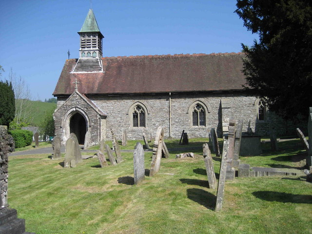 Llanbadarn Fynydd Church, near to Llanbadarn Fynydd, Powys, Great Britain.